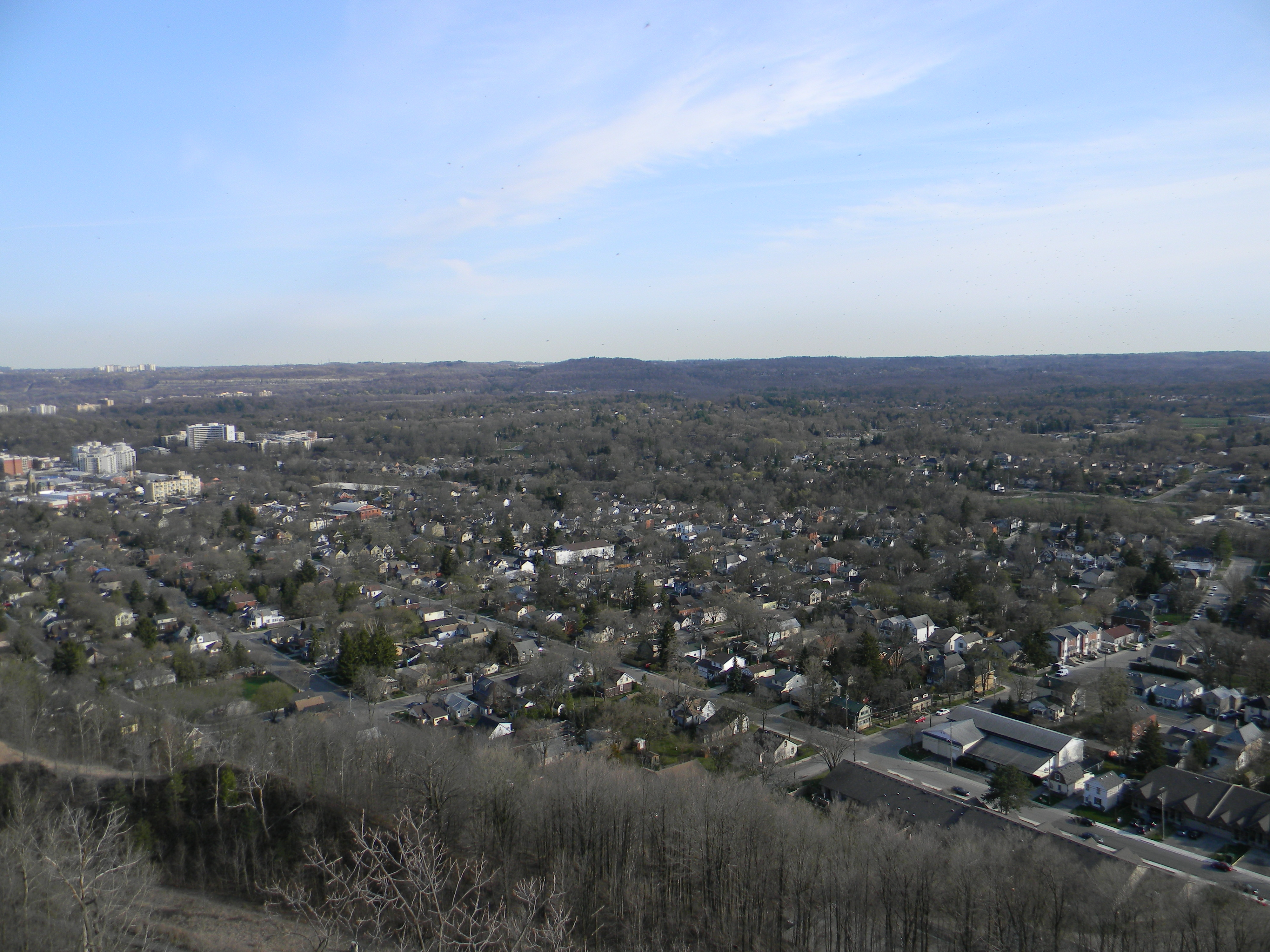 Dundas, Hamilton, Ontario, Canada. Picture taken from Dundas Peak